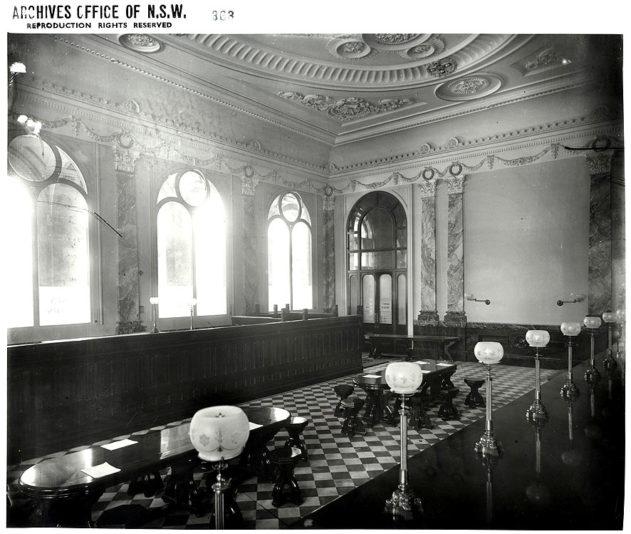 General Post Office - interior, Sydney Dated: No date Digital ID: 4481_a026_000326 Rights: We'd love to hear from you if you use our photos. Many other photos in our collection are available to view and browse on our website using Photo Investigator.